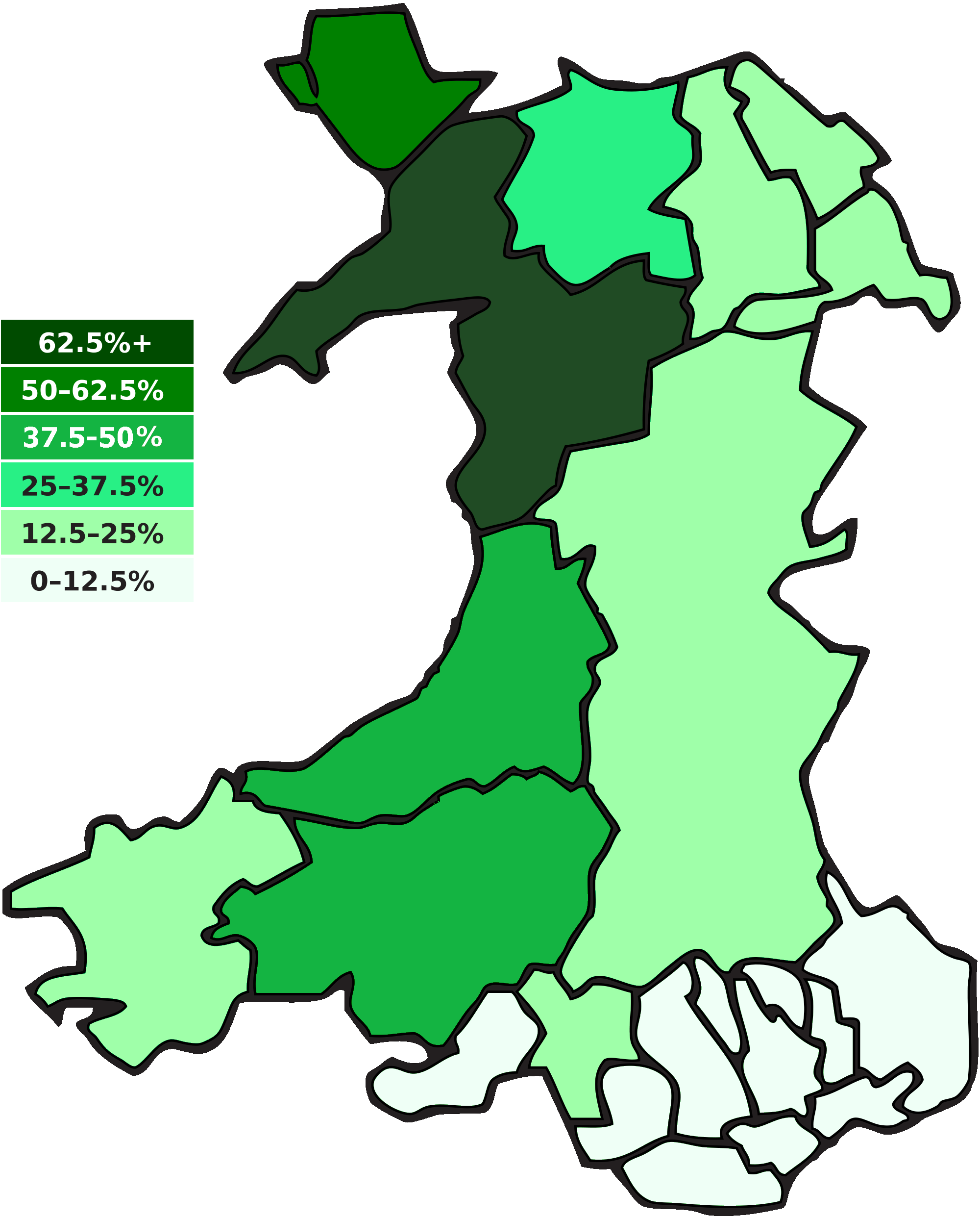 Percentages of Welsh speakers in the principal areas of Wales according to the 2011 census. Based on File:Siaradwyr y Gymraeg ym Mhrif Ardaloedd Cymru2a.svg updated with numbers from